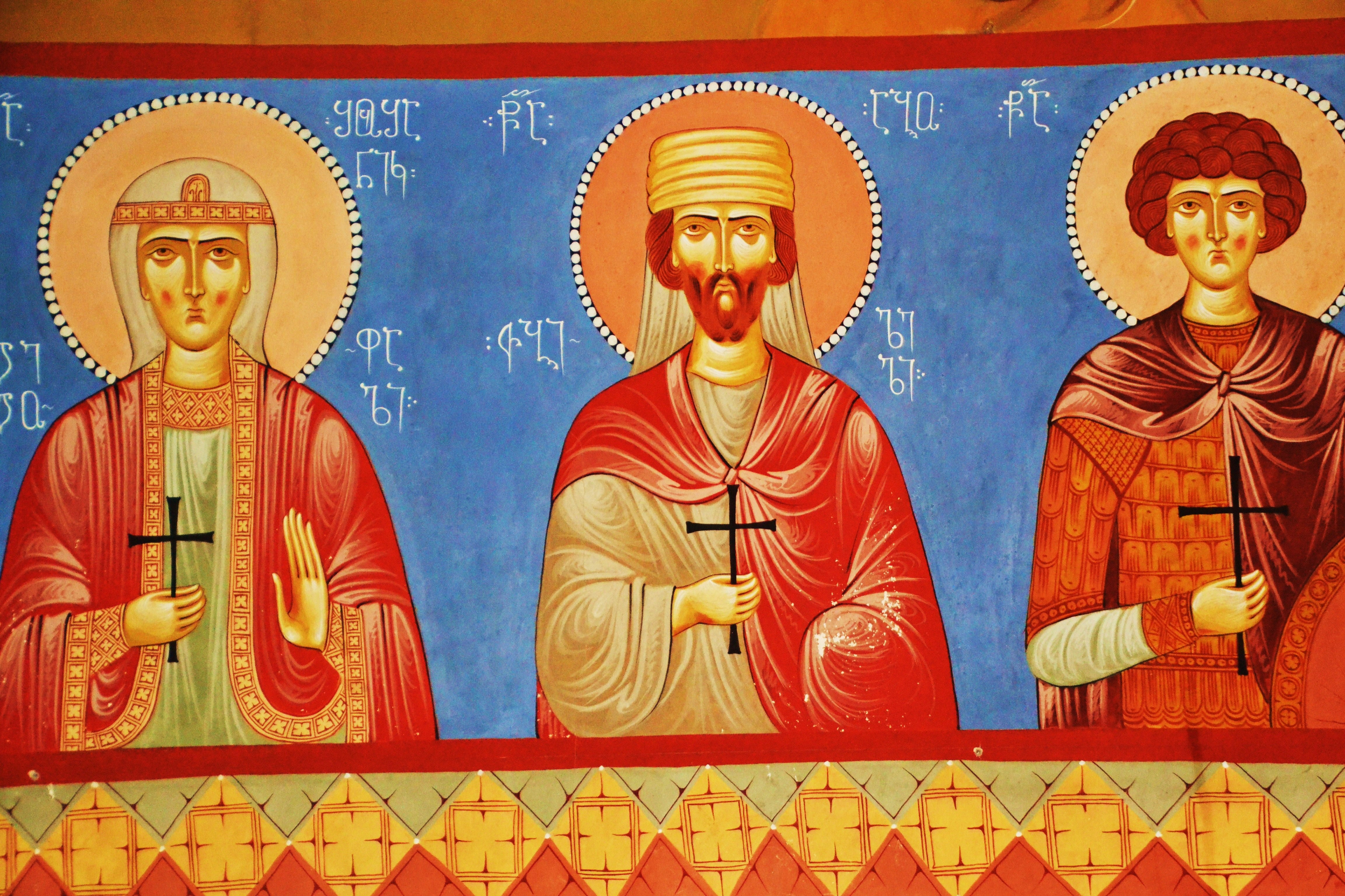 Church fresco in Tbilisi, Georgia